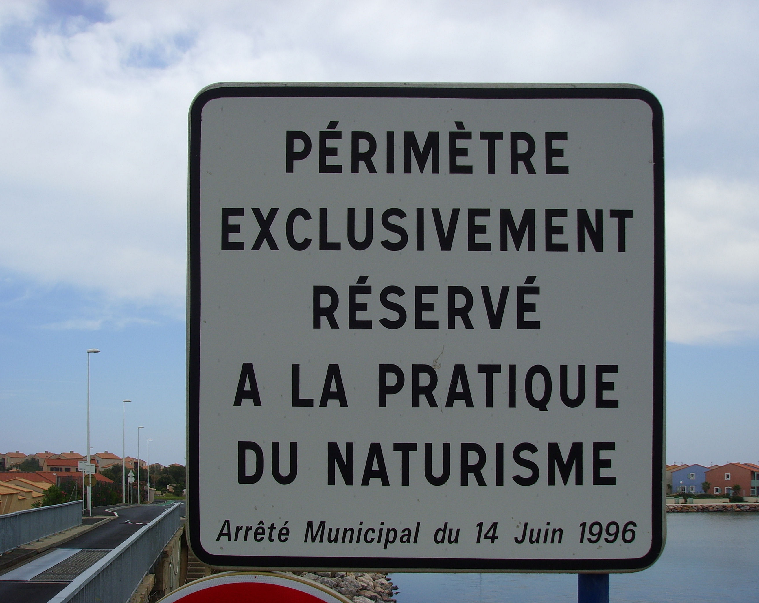 Les Villages naturistes de Port Leucate, Languedoc-Roussillon, France: Entering of this area is allowed only for naturists